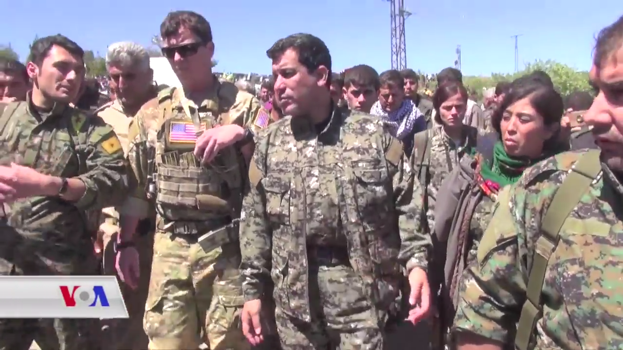 An unidentified US military officer accompanies YPG and YPJ officers visiting a town in the northeastern Hasaka Governorate during the aftermath of Turkish airstrikes in the area.